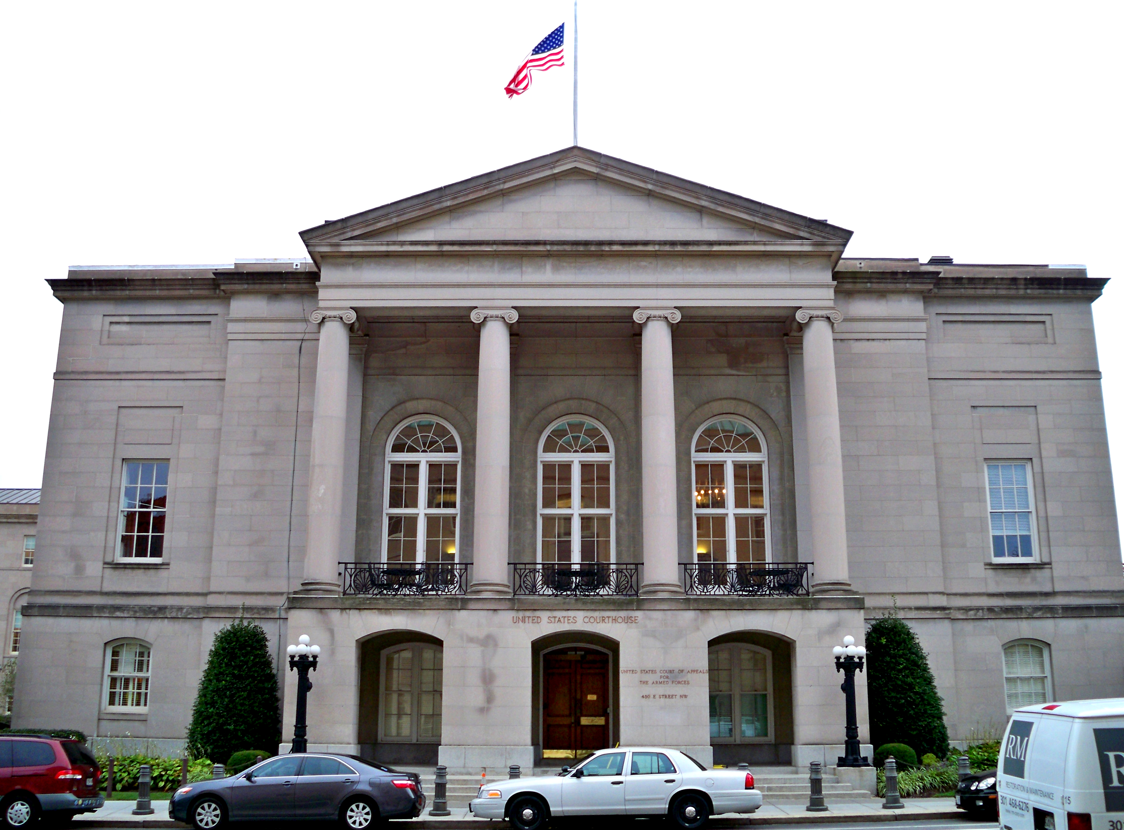 The courthouse for the Court of Appeals for the Armed Forces at Judiciary Square in Washington, DC.